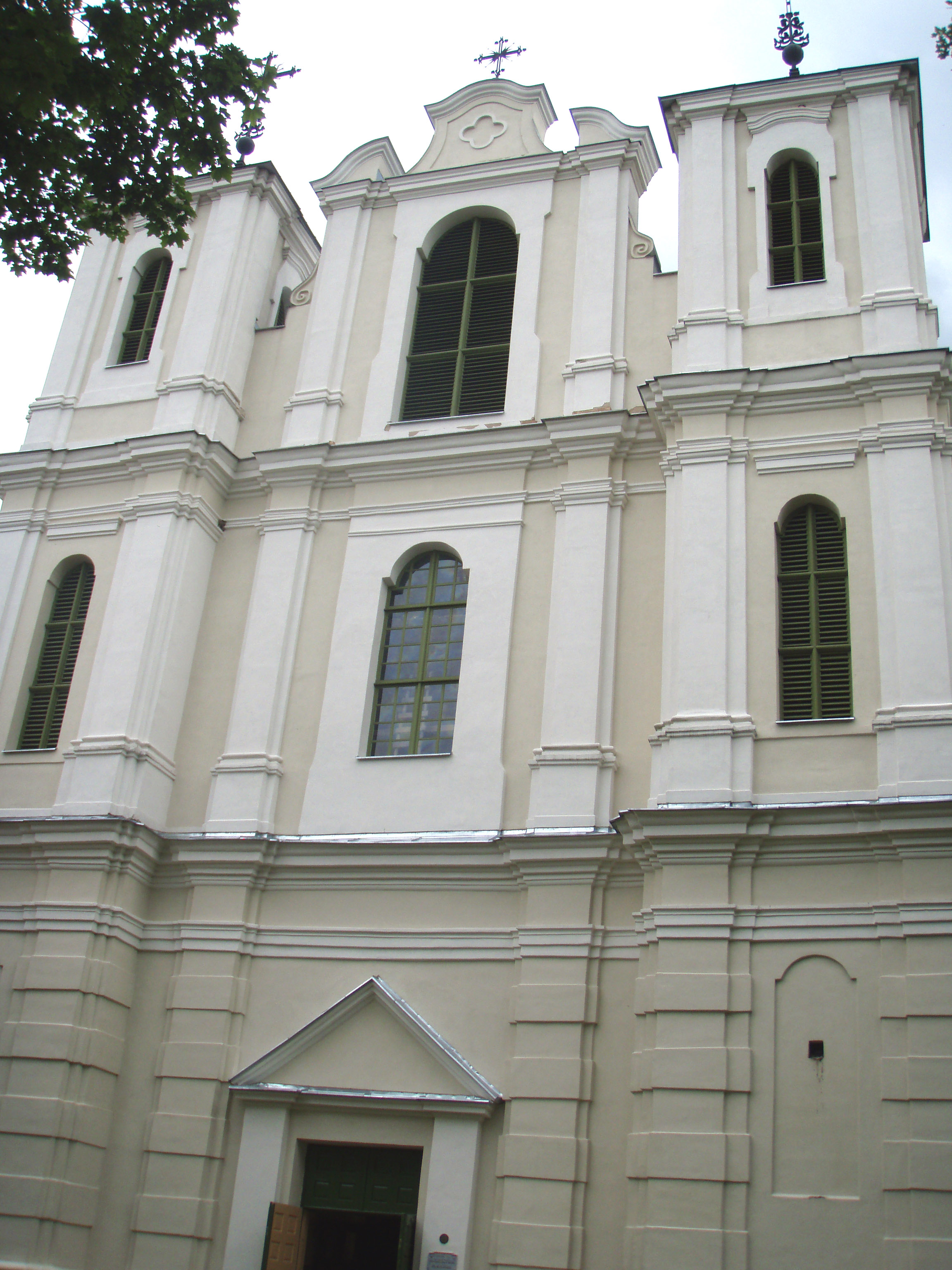 A church in Antaliepte, Lithuania